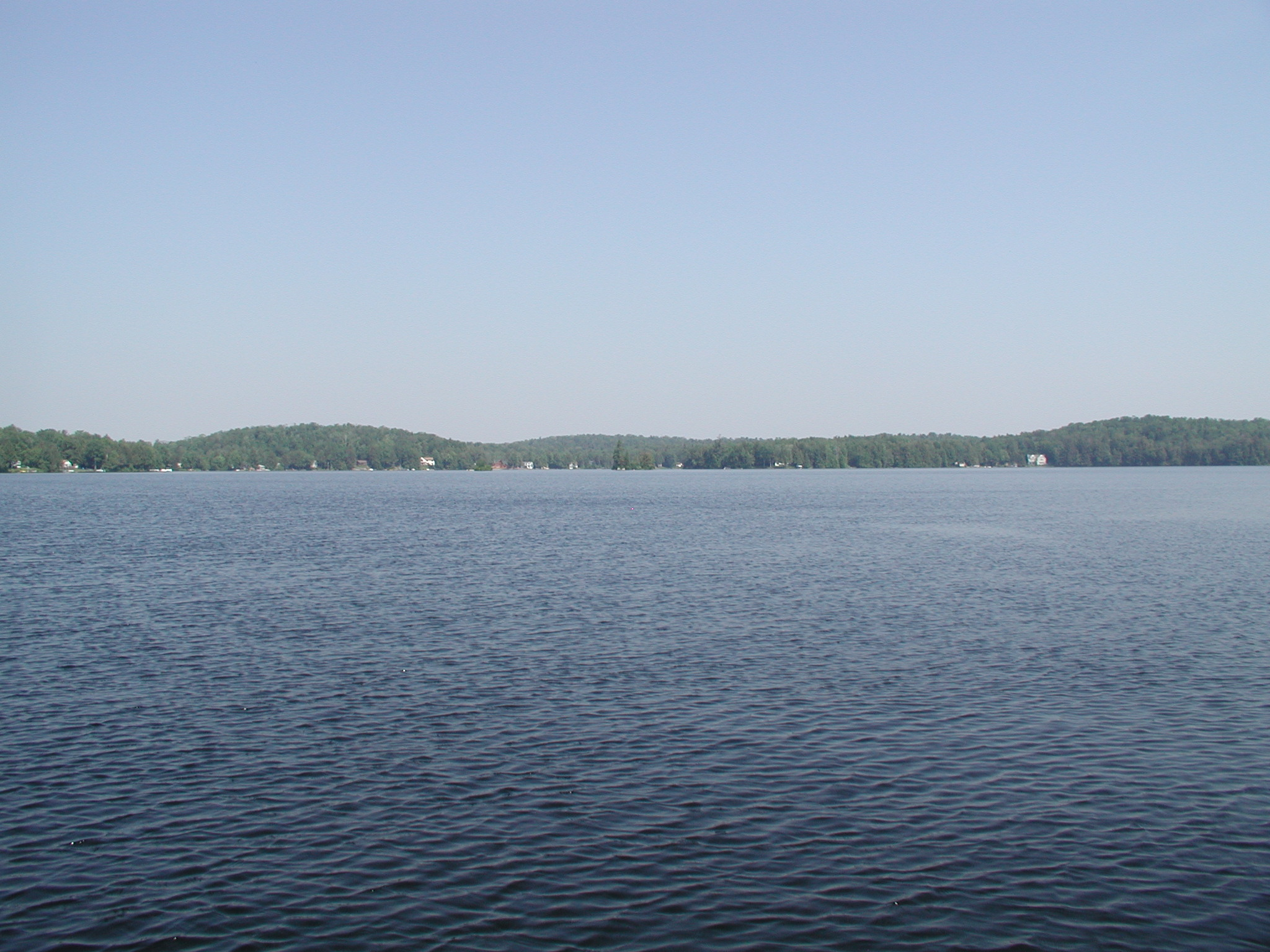 Picture taken from southeast cove by the dam.